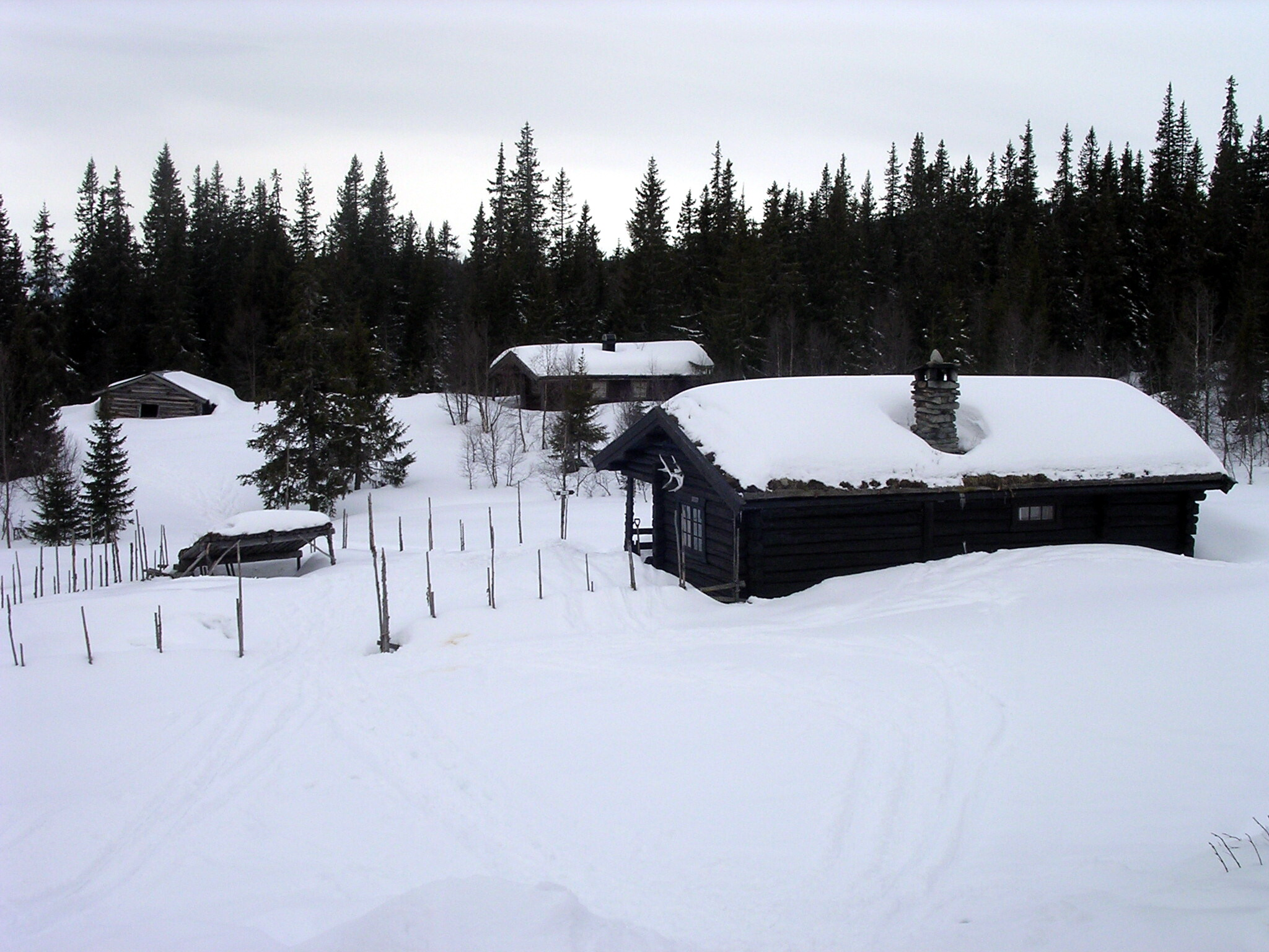 Øvre Fjellstul, a cabin between Blefjell and Hardangervidda, Norway.